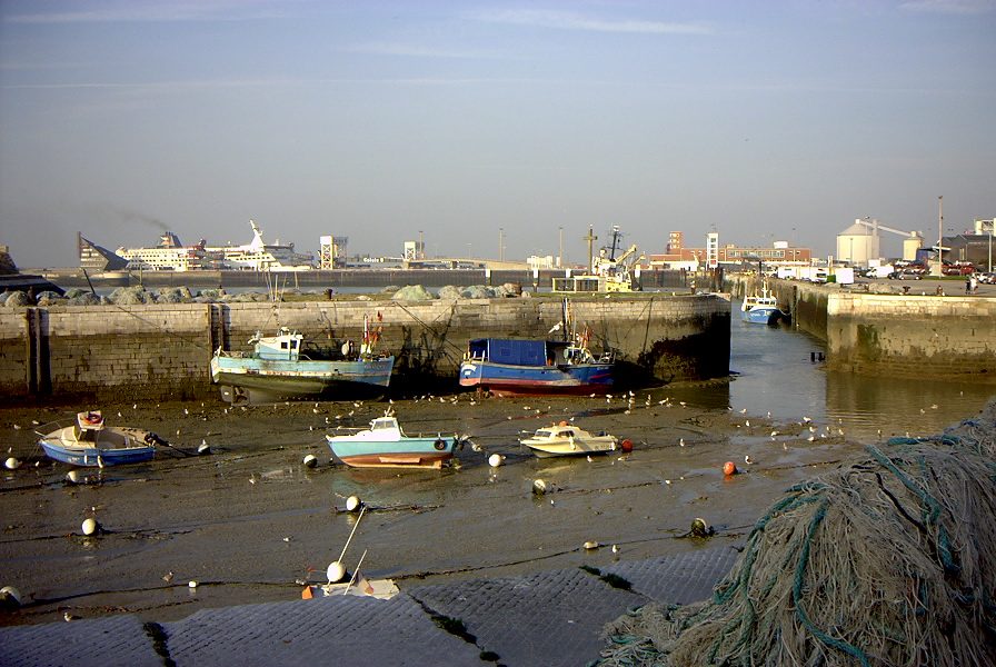 Harbor of Calais